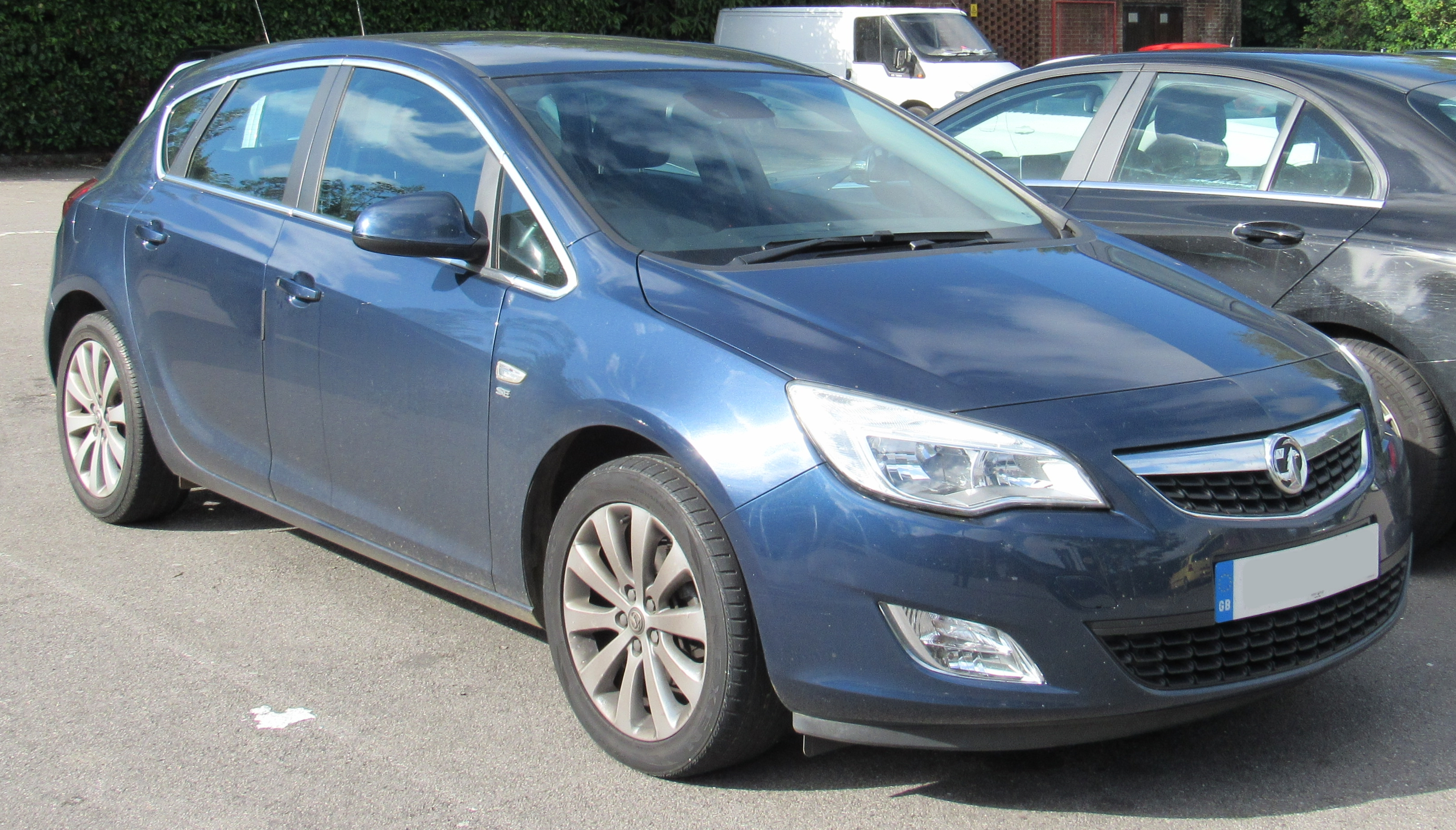 2012 Vauxhall Astra SE Turbo 1.4 Front Taken at A417, near Cirencester